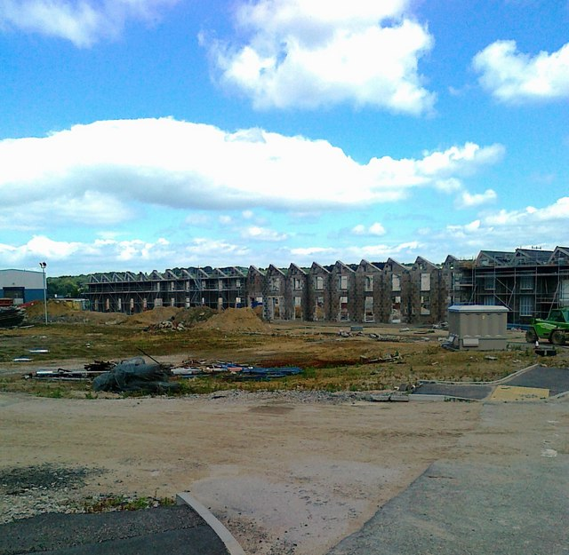 NJ7722 Redevelopment, Inverurie. The site and buildings of the Inverurie Locomotive Works, undergoing redevelopment, 15 June, 2011